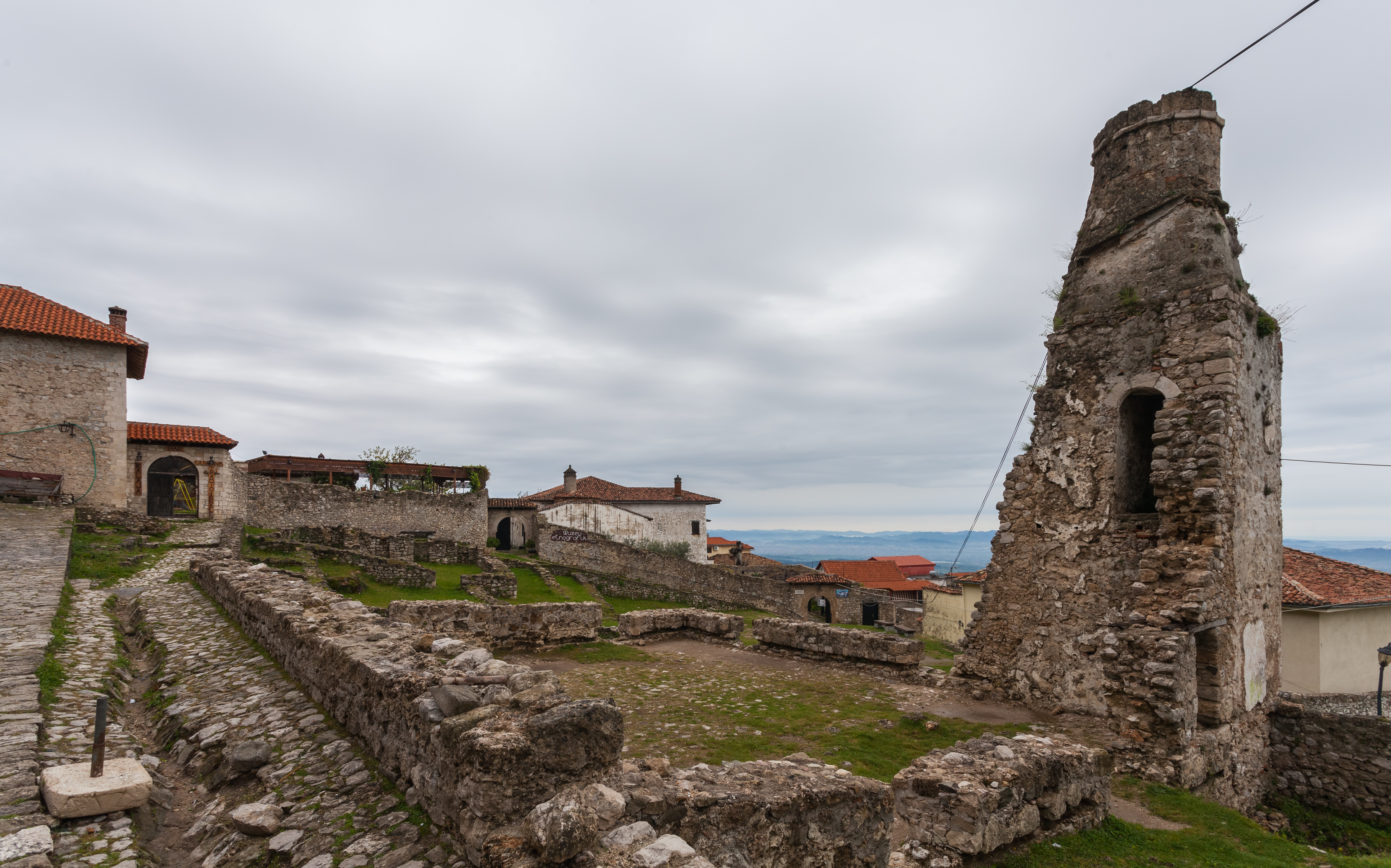 Kruja Castle, Kruja, Albania